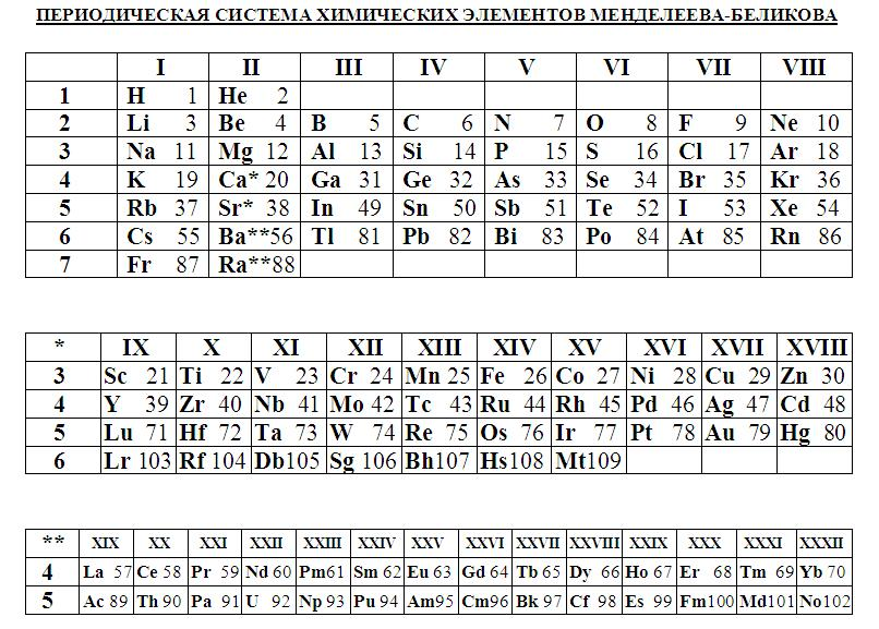 Mendeleev-Belikov periodical system of chemical elements